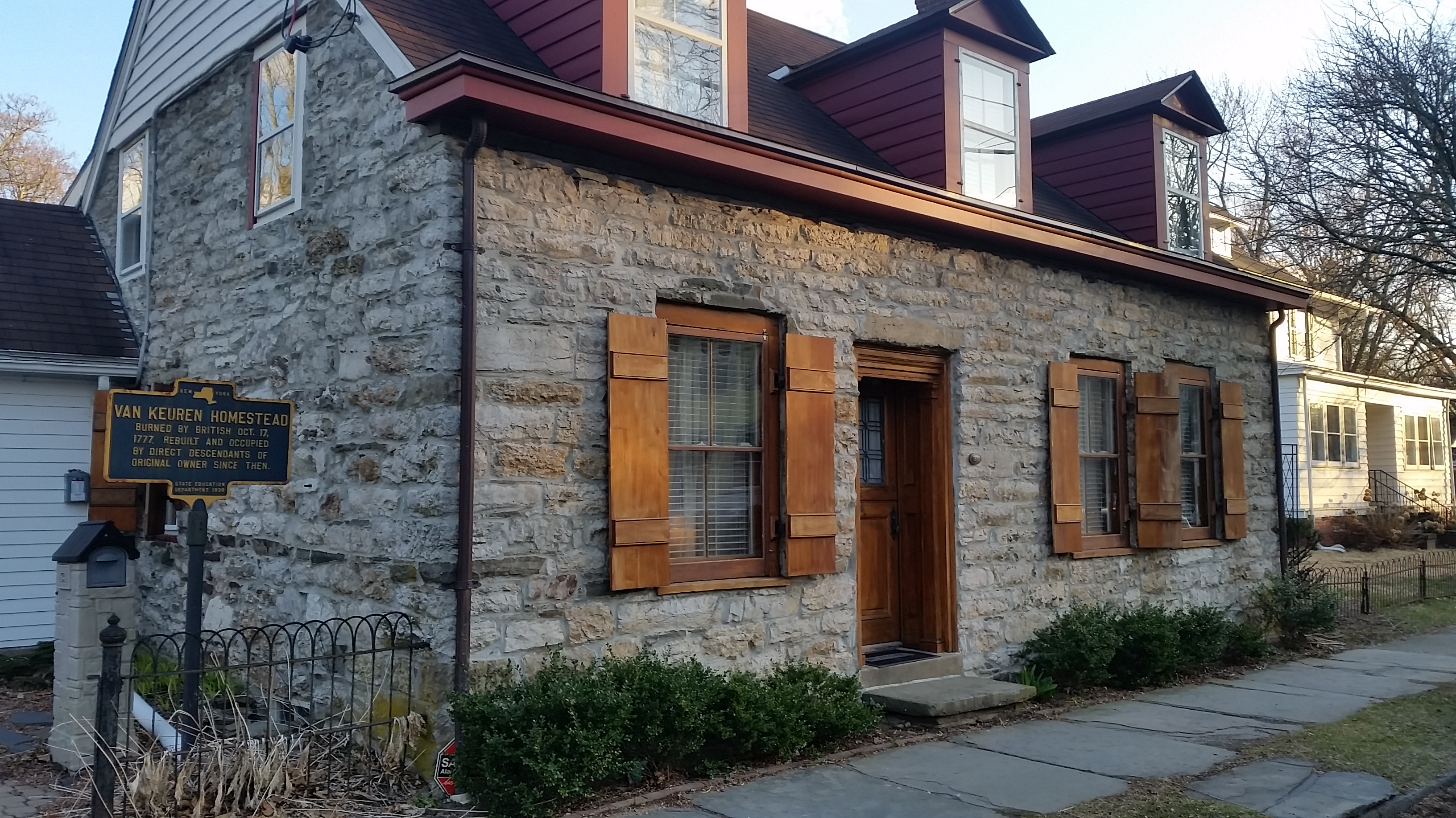 New York State historical marker (in Ulster County) for the Van Keuren home (this picture a view that includes the house)